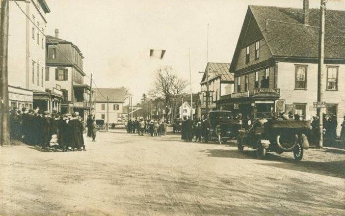 Awaiting Parade on Main Street, Raymond, NH; from a c. 1918 postcard.